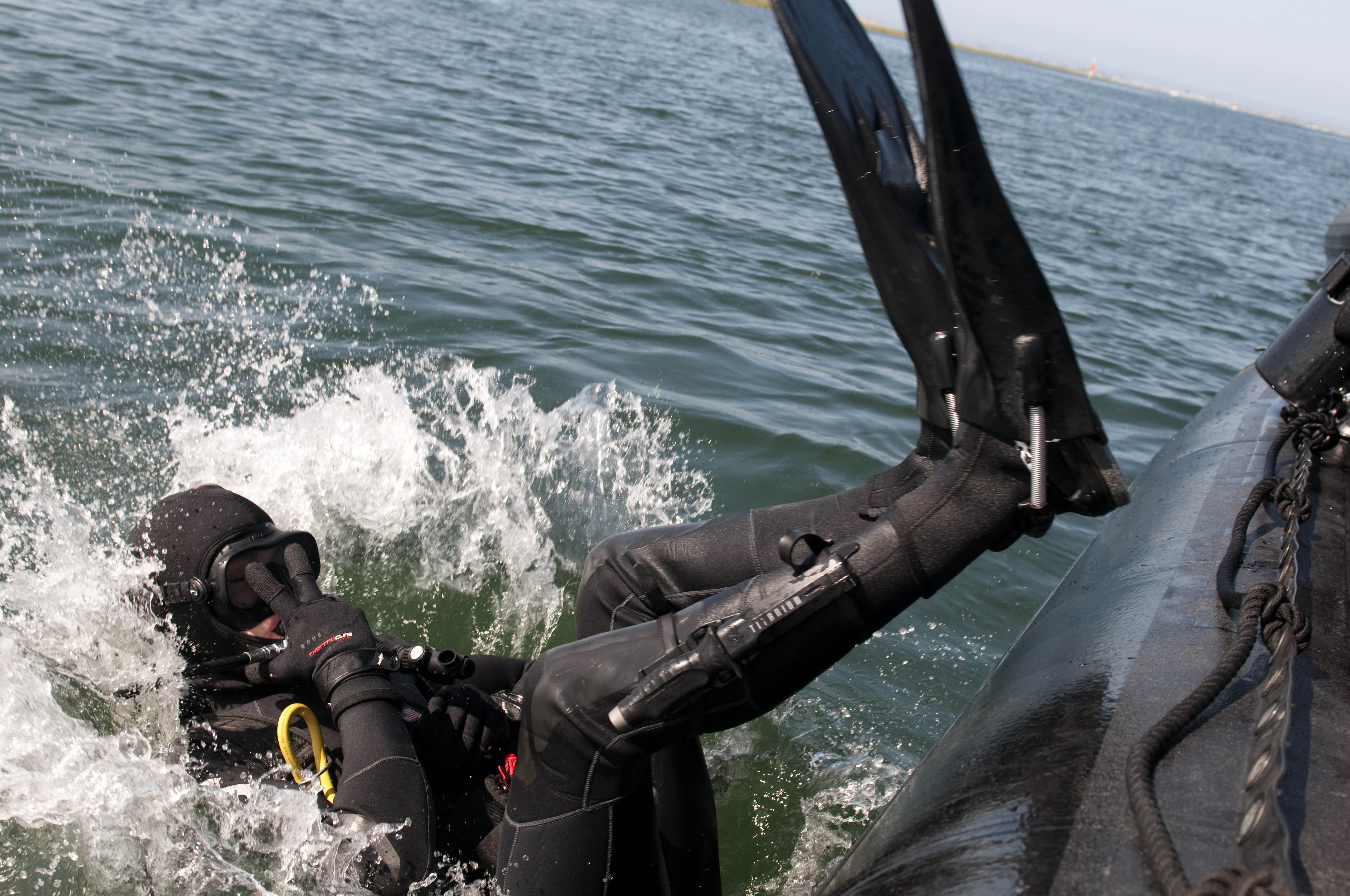 SAN DIEGO (Aug. 27, 2011) Navy Diver 2nd Class Ryan Kithcens, assigned to Mobile Diving and Salvage Unit (MDSU) 1, dives into San Diego Bay to search for trash during Operation Clean Sweep 2011. The annual event involved more than 1,500 service members and San Diego-area citizens volunteering to clean up the water and shoreline surrounding San Diego Bay. (U.S. Navy photo by Mass Communication Specialist Seaman Apprentice Karolina Martinez/Released)